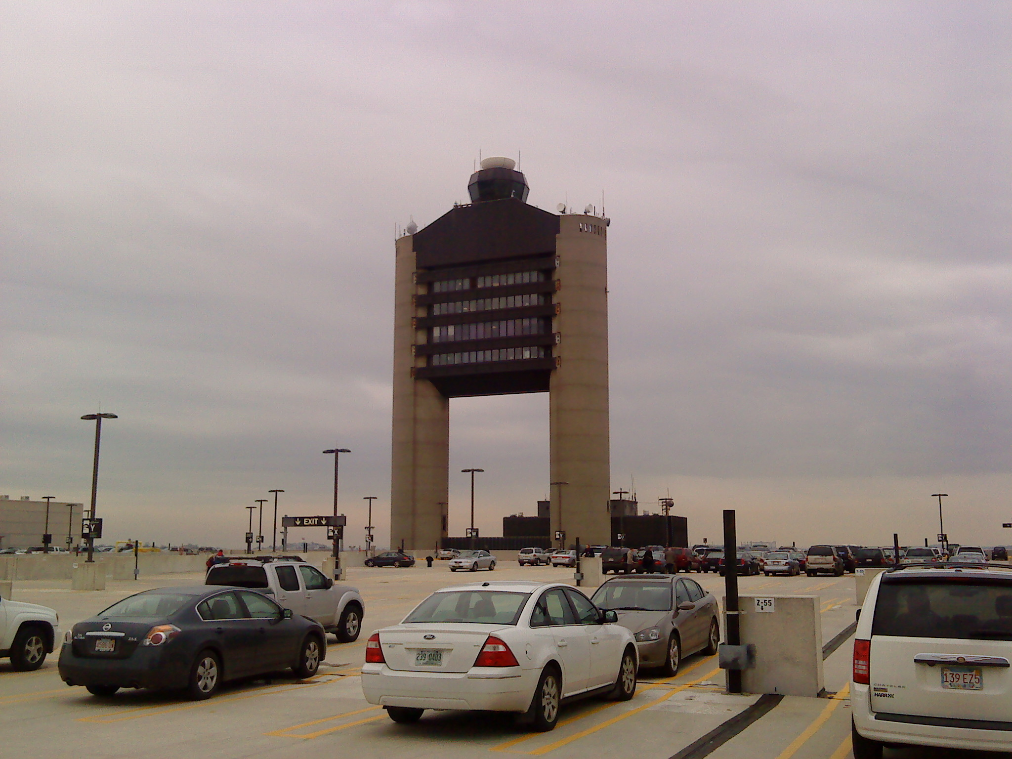 The distinctive flight control tower at the Logan International Airport, Boston.